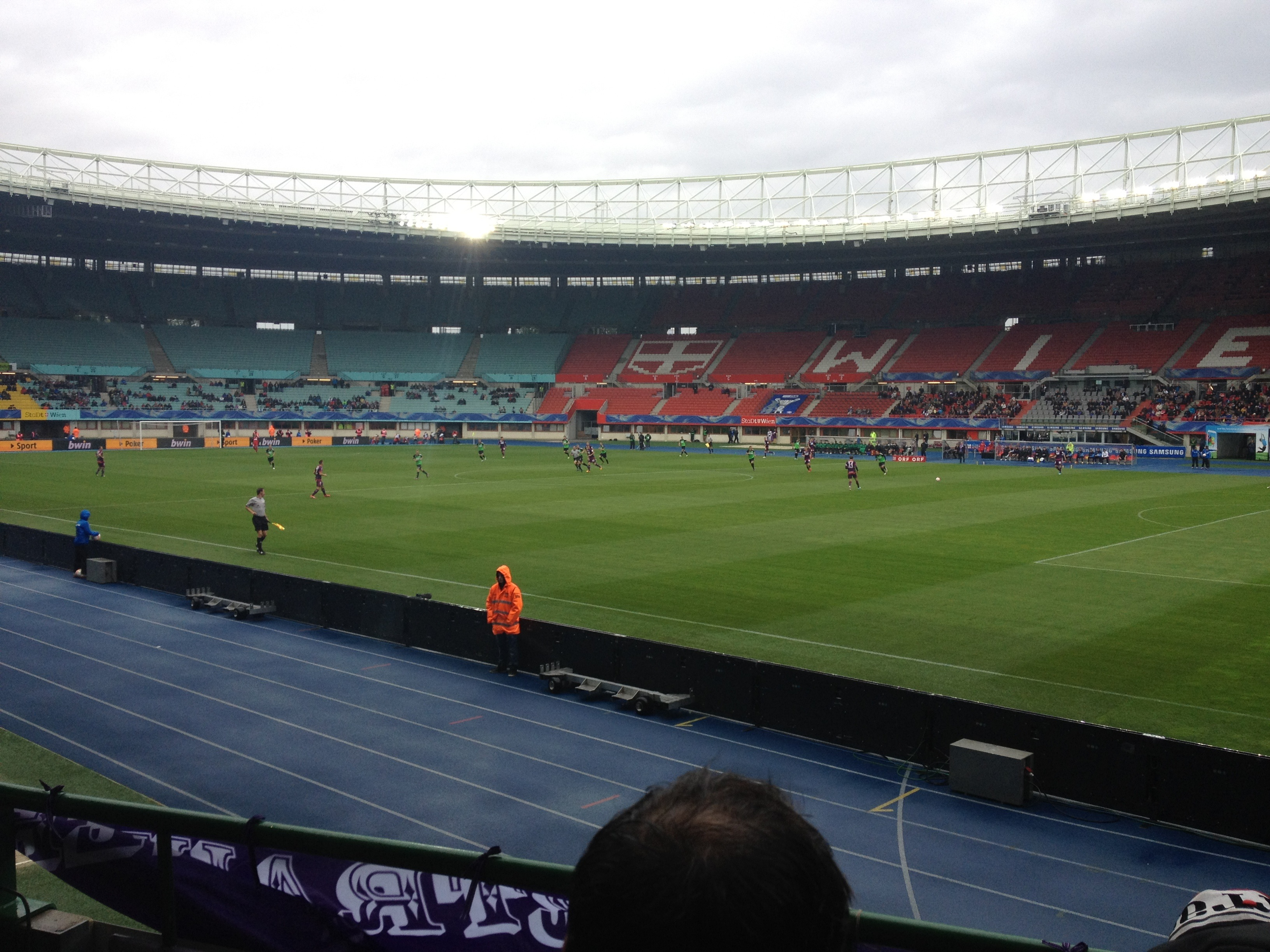 After the beginning of the ÖFB Samsung Cup finals 12/13 between FK Austria Wien and FC Pasching